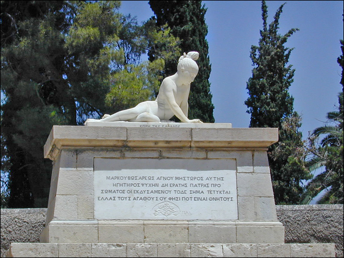 The headstone from the tomb of the Grecian Hero Markos Botsaris, fighter of the Greek revolution. A monument created by the French sculptor David d'Angers to the Greek liberator Markos Botsaris consisting of a young female figure called Reviving Greece (replica by Georgios Bonanos of an original now in the National Historical Museum of Athens). Messolonghi, Greece